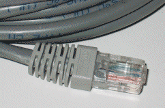 10BASE-T Cable. Picture taken by Duncan Lock and released into the Public Domain.